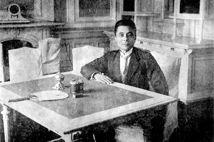 Momosuke Fukuzawa (48-year-old) in Nagoya Electric Light Company.